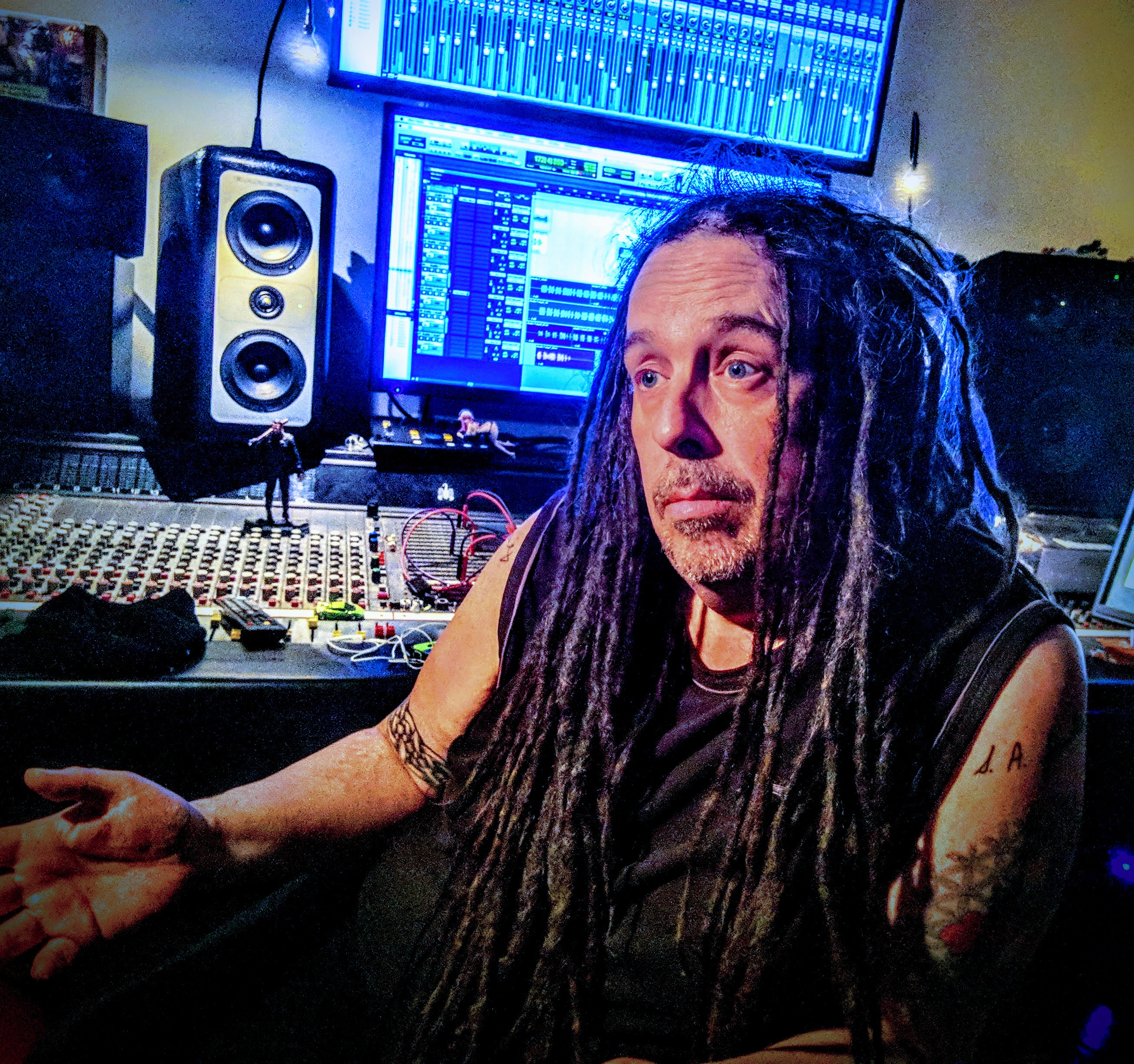 Andy J Davies engaged in mixing at Damage Recordings/The Analogue Room April 6th 2018